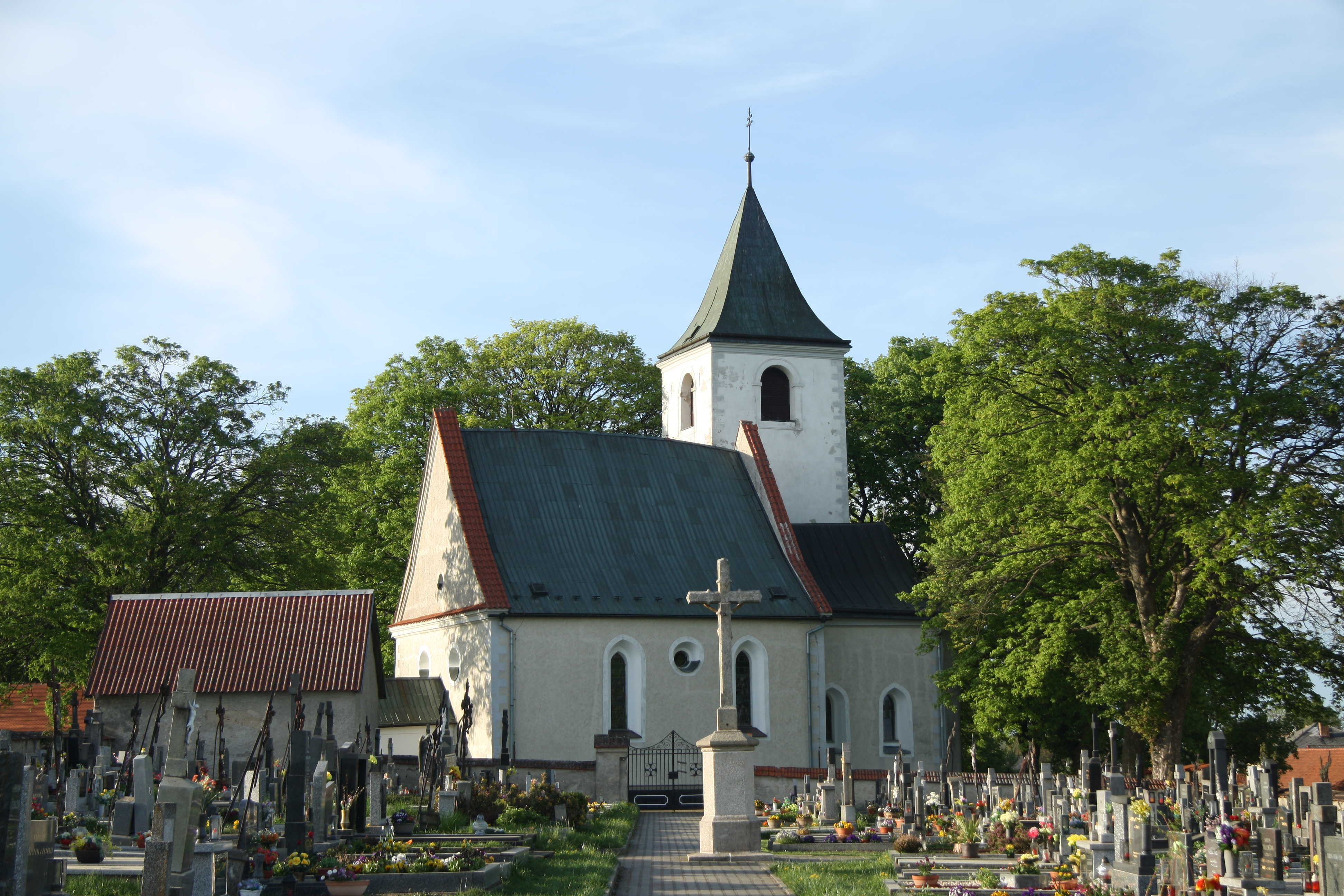 Side view of church of Saint James in Křeč, Pelhřimov District.